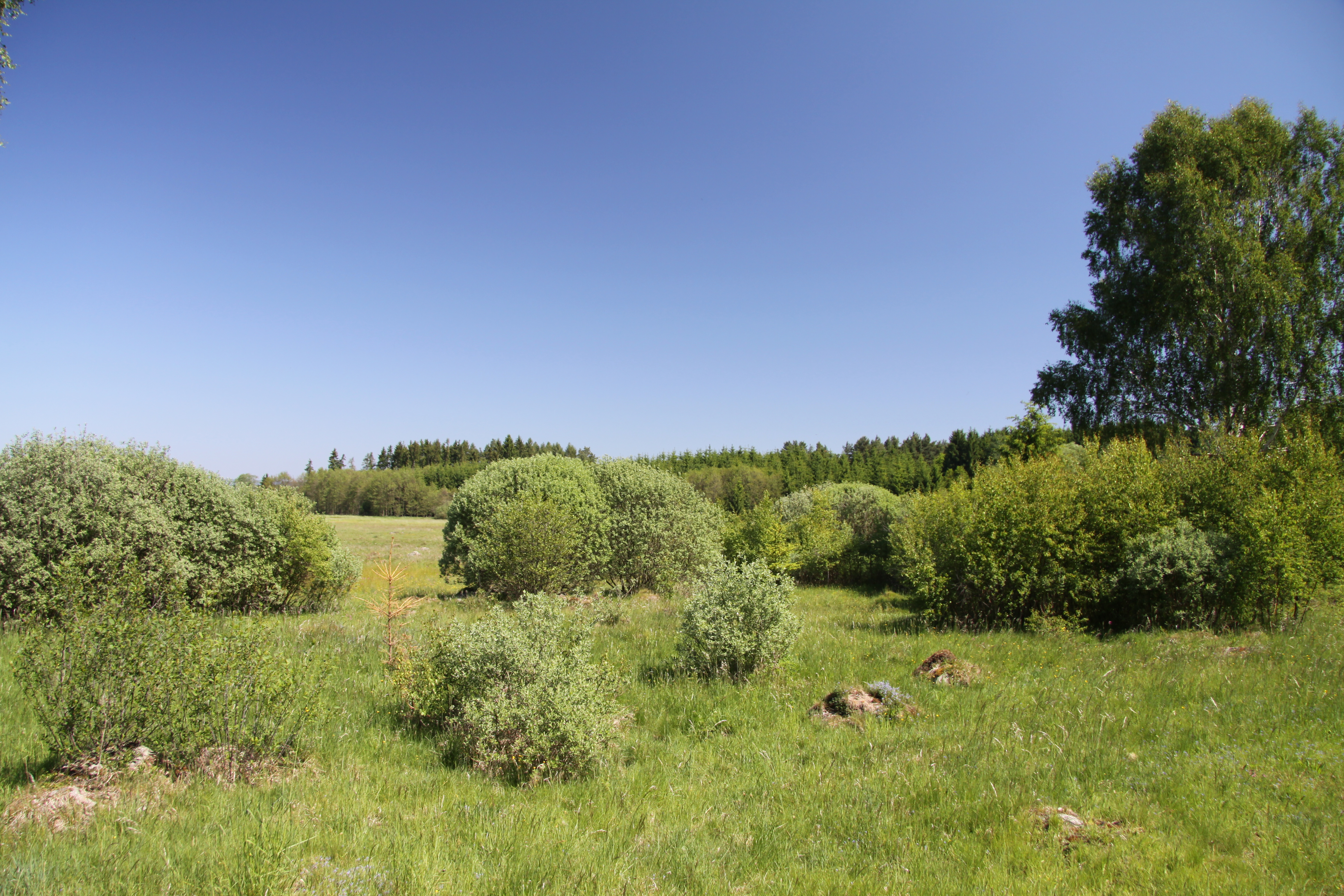 Natural monument Smyslov near Kadov village, Strakonice District, Czech Republic - Google Maps - Google Earth